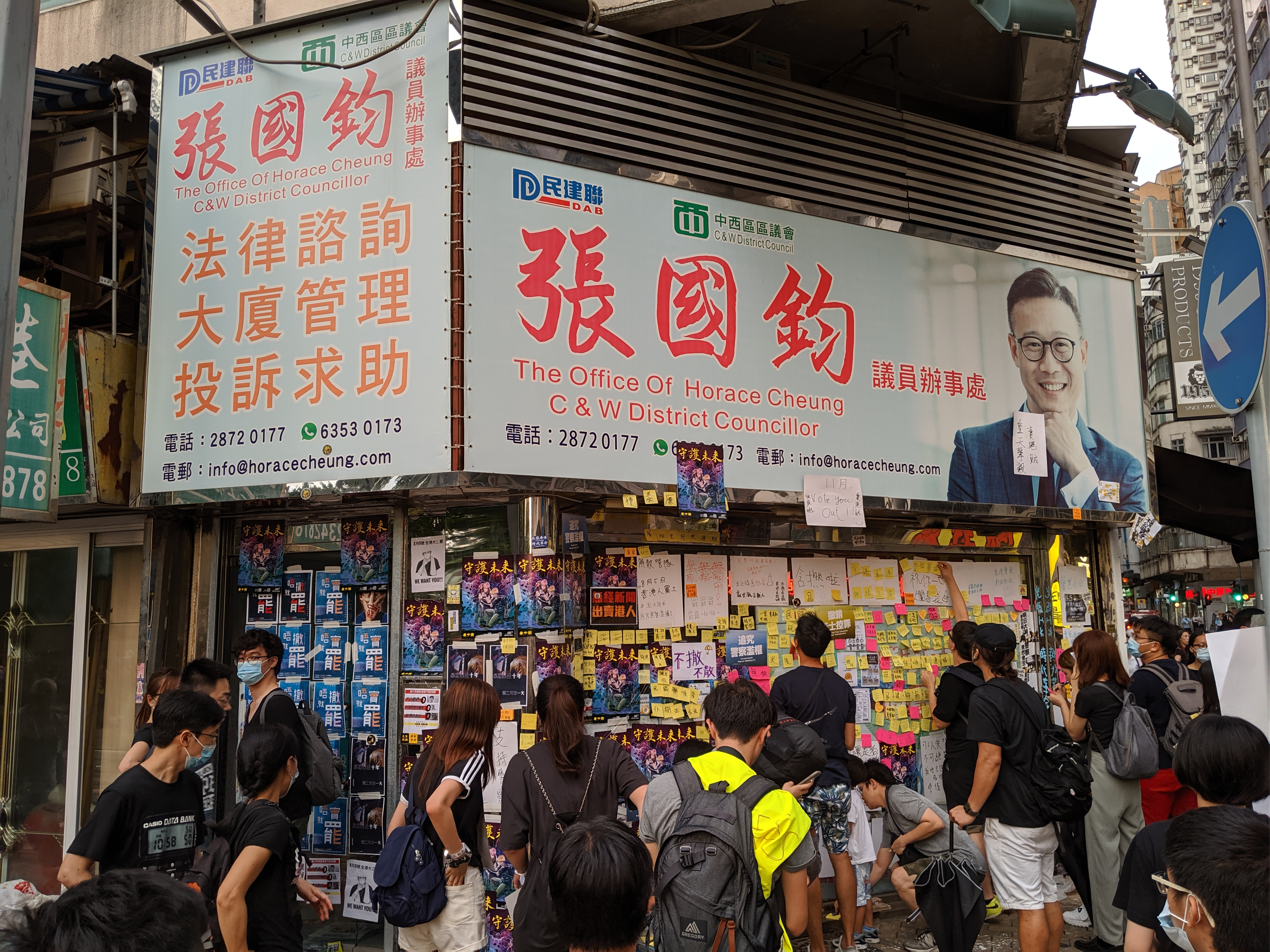 Protests in Hong Kong on 4 August, for the extradition bill and police excessive force.